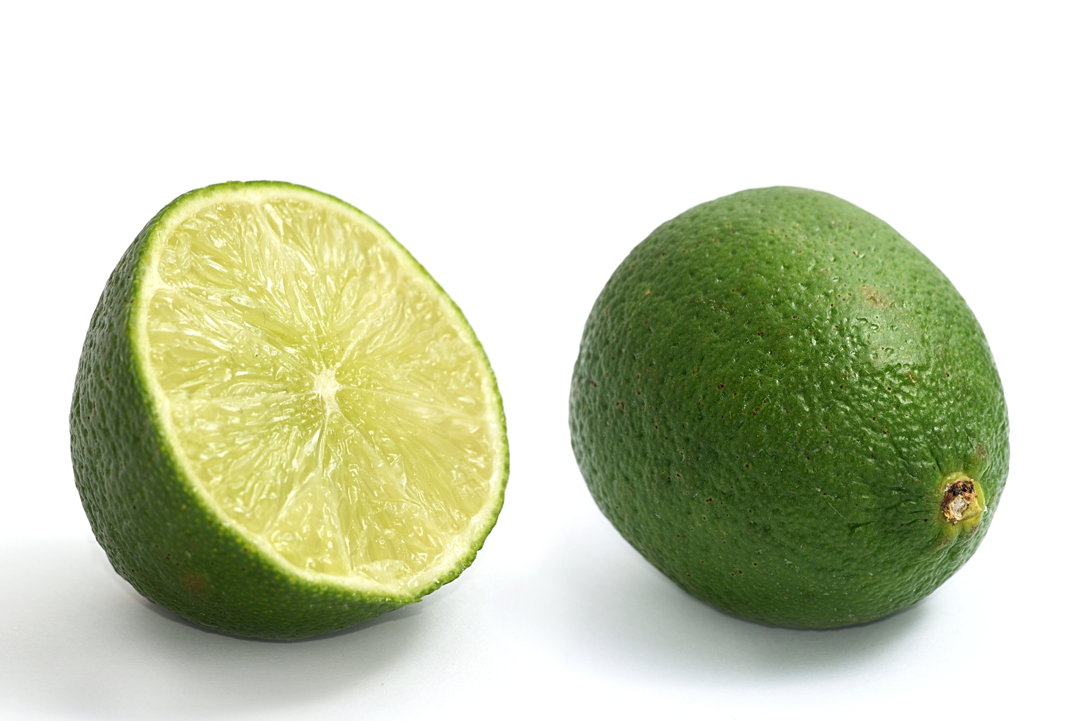 A lime, whole and cut in half